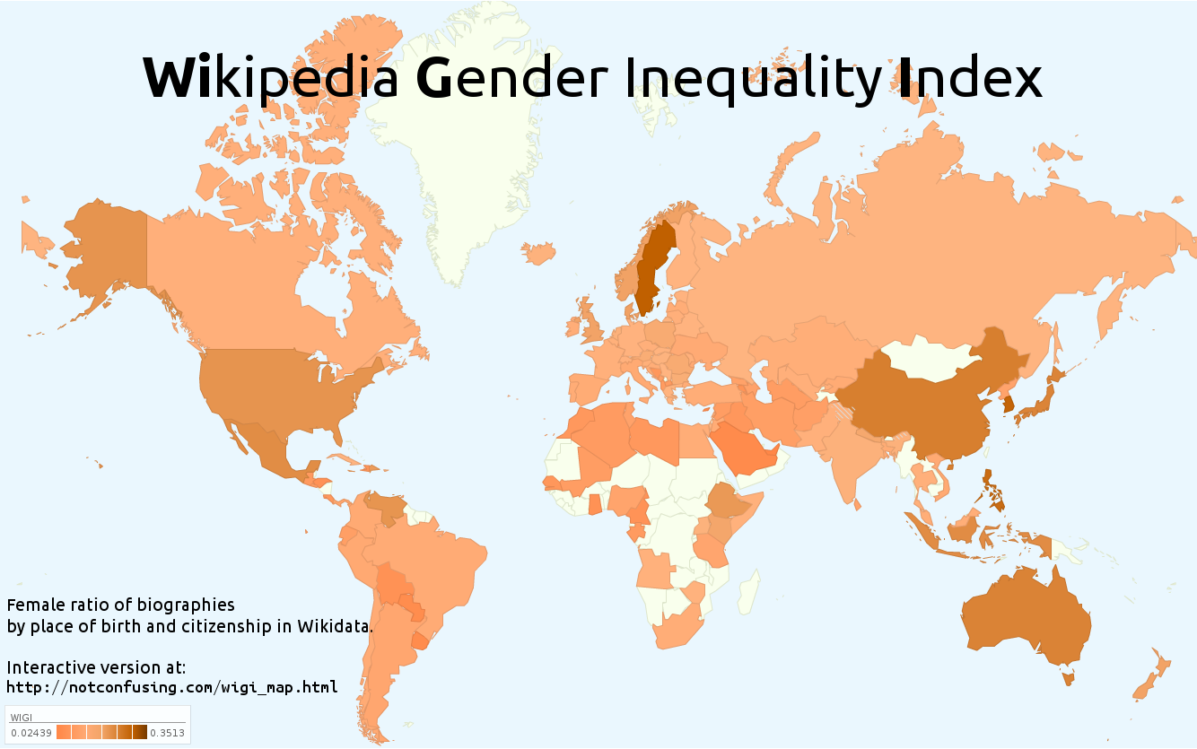 A gender inequality map of the world based on Wikidata. (Gender Gap Through Time and Space: A Journey Through Wikipedia Biographies and the "WIGI" Index Maximilian Klein, Piotr Konieczny. 2015) See also community feedback survey File:WIGI Initial survey.pdf.